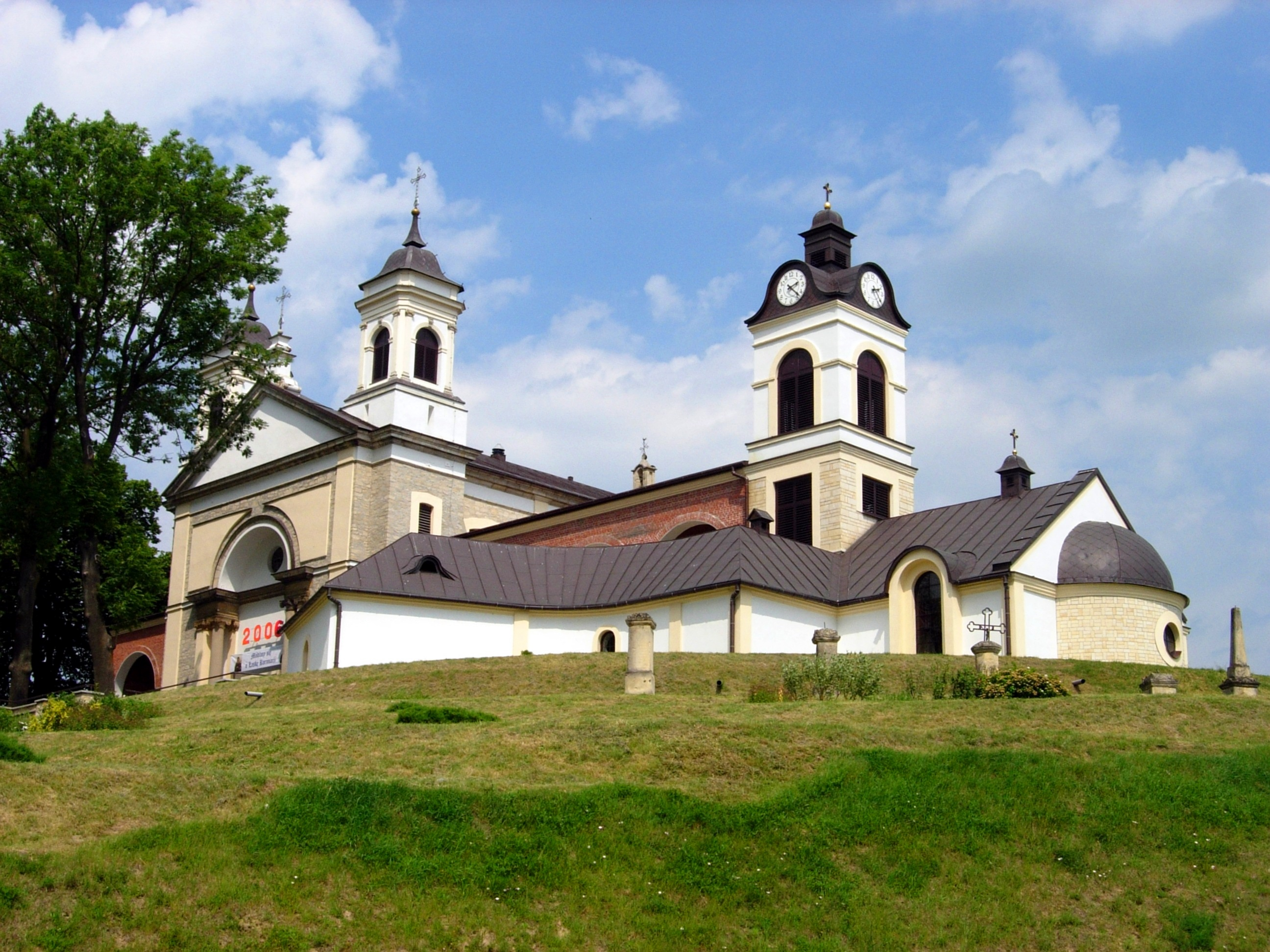 Saint Stanislaus Church in Ożarów (Poland)